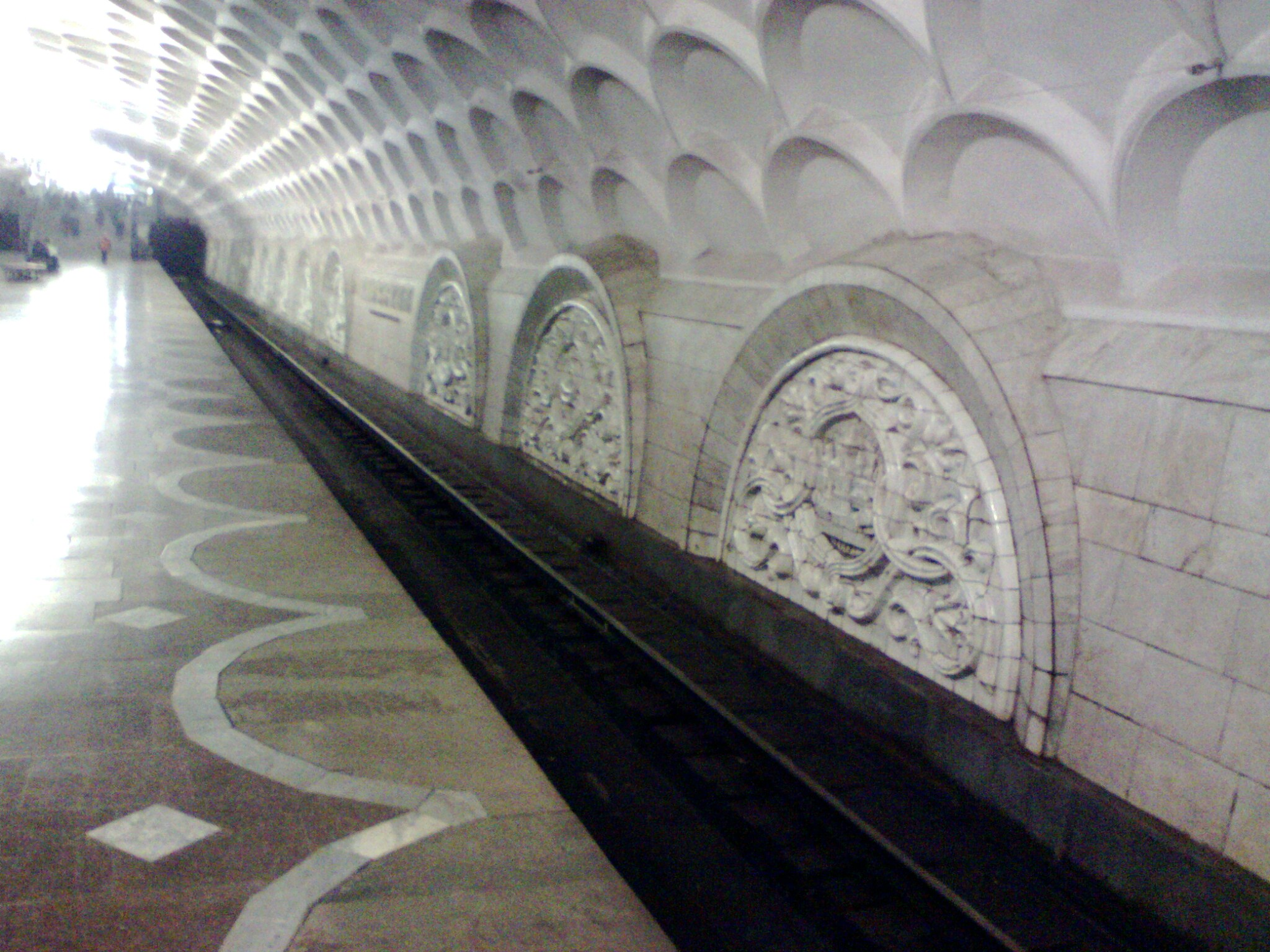 Decorative moulding on the Kyivska subway station, Kharkiv.